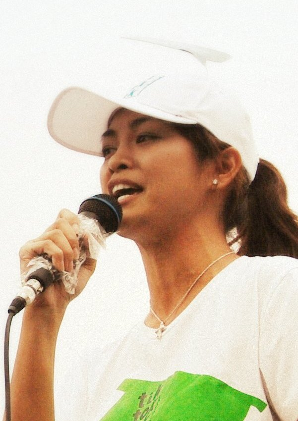 Miriam Quiambao, during the Global Gender and Climate Alliance march to the UNESCAP, to demand gender and climate justice.